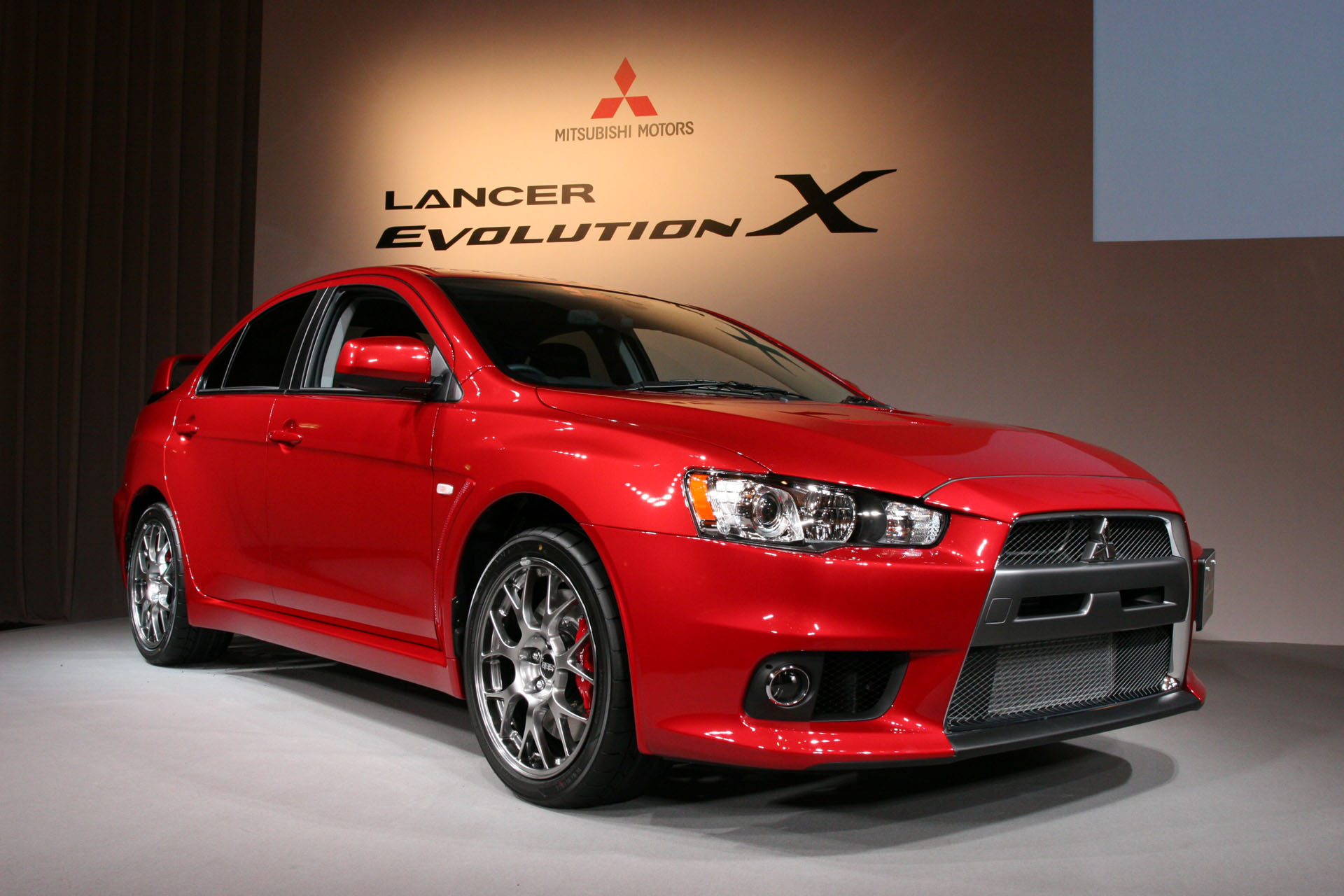 Lancer Evolution X photographed in hotel nikko tokyo.